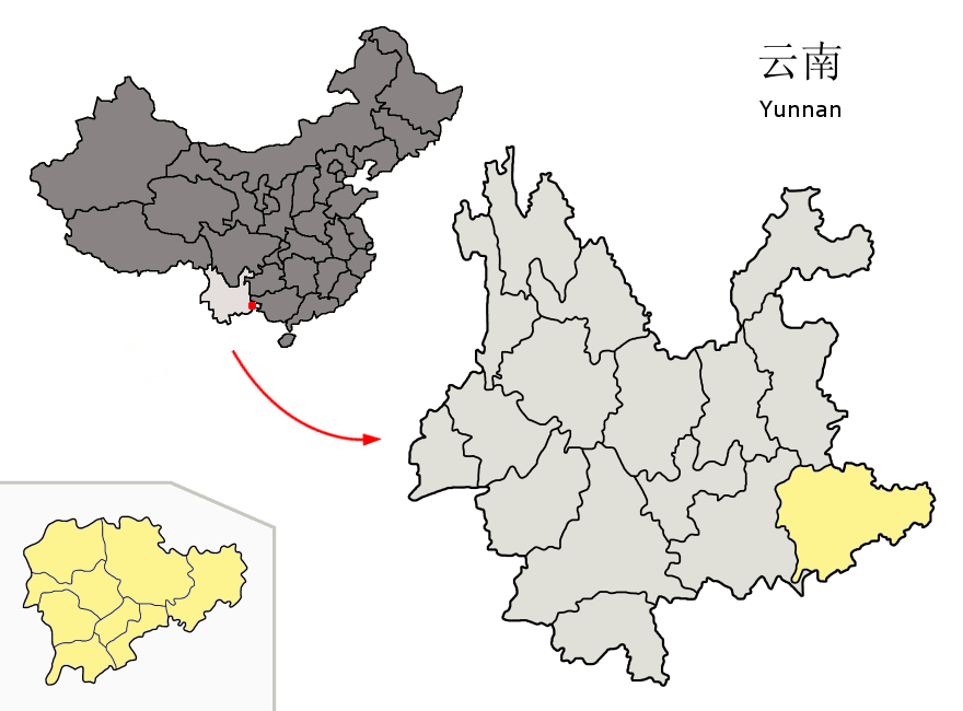 Location of Wenshan Prefecture (yellow) within Yunnan province of China Map drawn in september 2007 using various sources, mainly : Yunnan province administrative regions GIS data: 1:1M, County level, 1990 Yunnan Counties map from